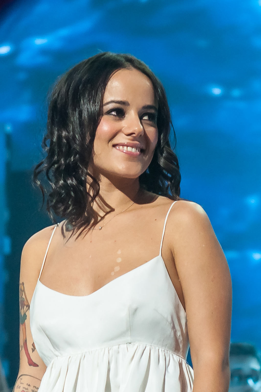 The French singer Alizée at 'Les Enfoirés' show in Paris on 24 January 2013.